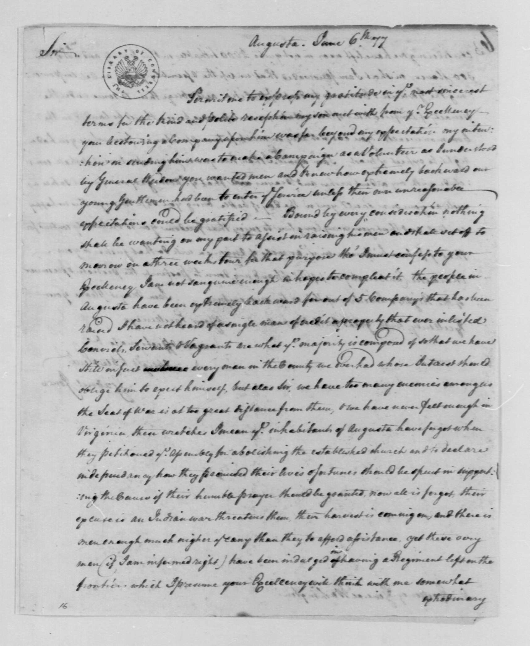 A letter from Gabriel Jones to George Washington, June 6, 1777, from the George Washington Papers at the Library of Congress, 1741-1799.